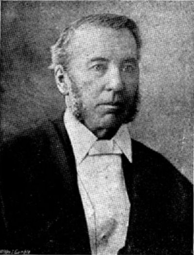 O'Rorke, George Maurice (1830-1916) New Zealand politician, lawyer, educationalist